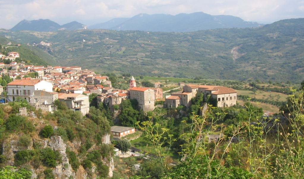 Panoramic view of Sant'Angelo a Fasanella (Campania, Italy) from the road to Ottati and Castelcvita.